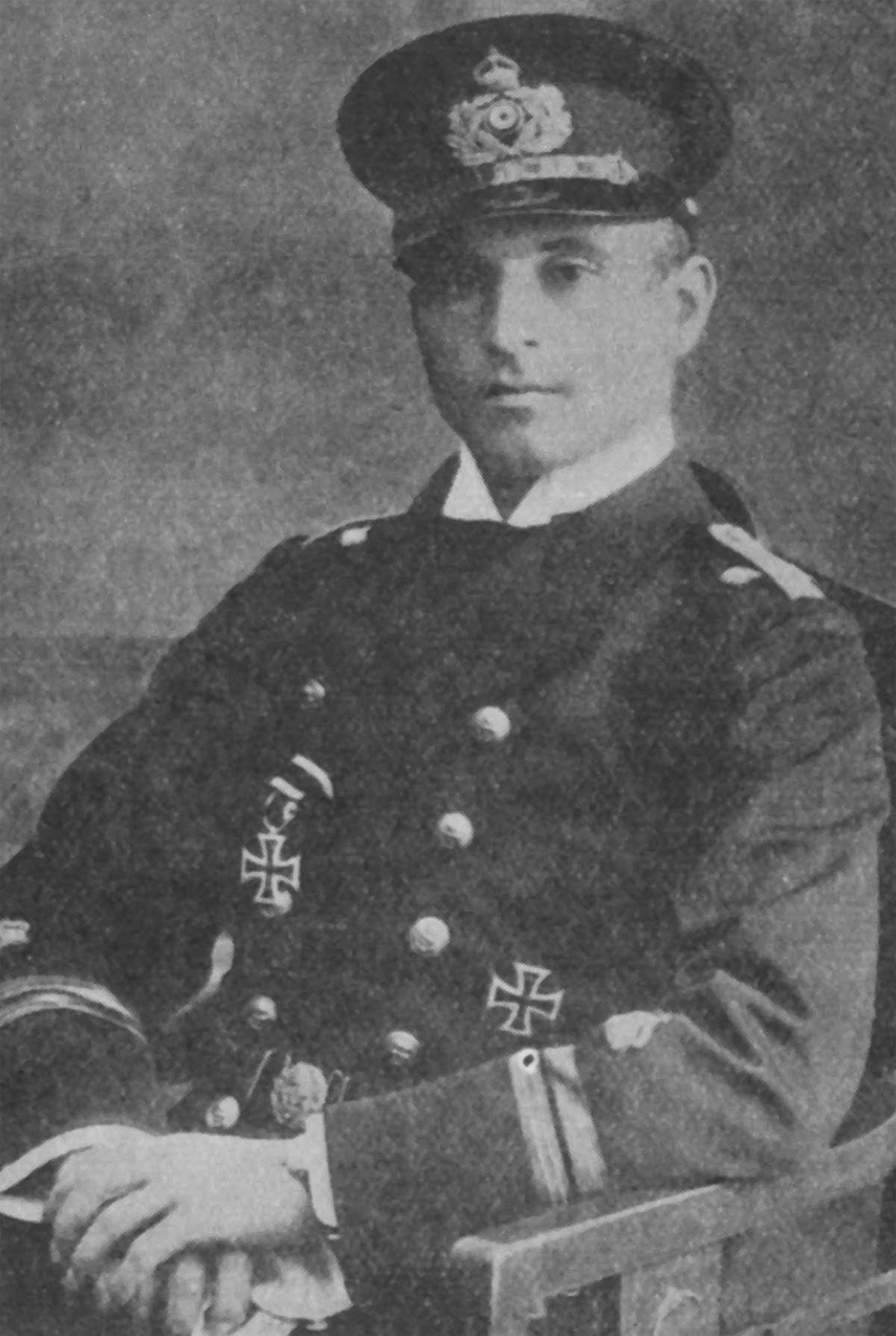 Otto Weddigen commander of german submarine U-9 during Great War.